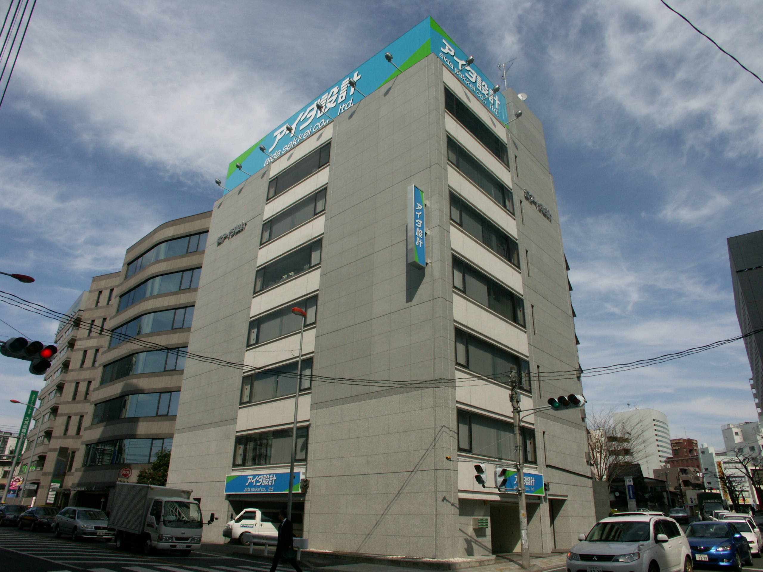 アイダ設計 本社